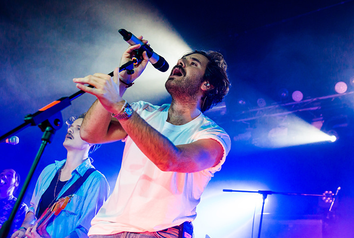 20161111-224630-Thegiornalisti @ New Age Club copia